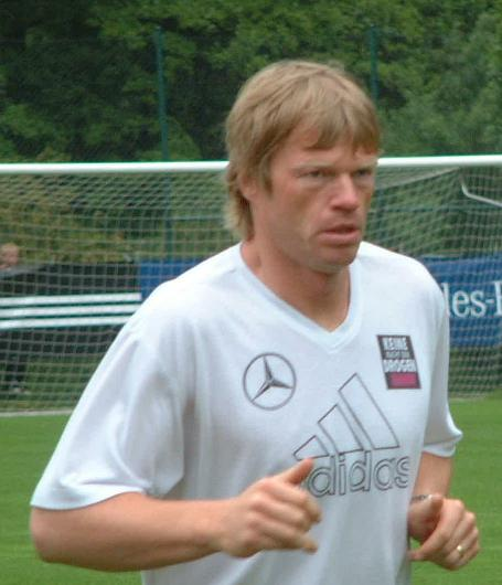 Oliver Kahn during training for Euro 2004